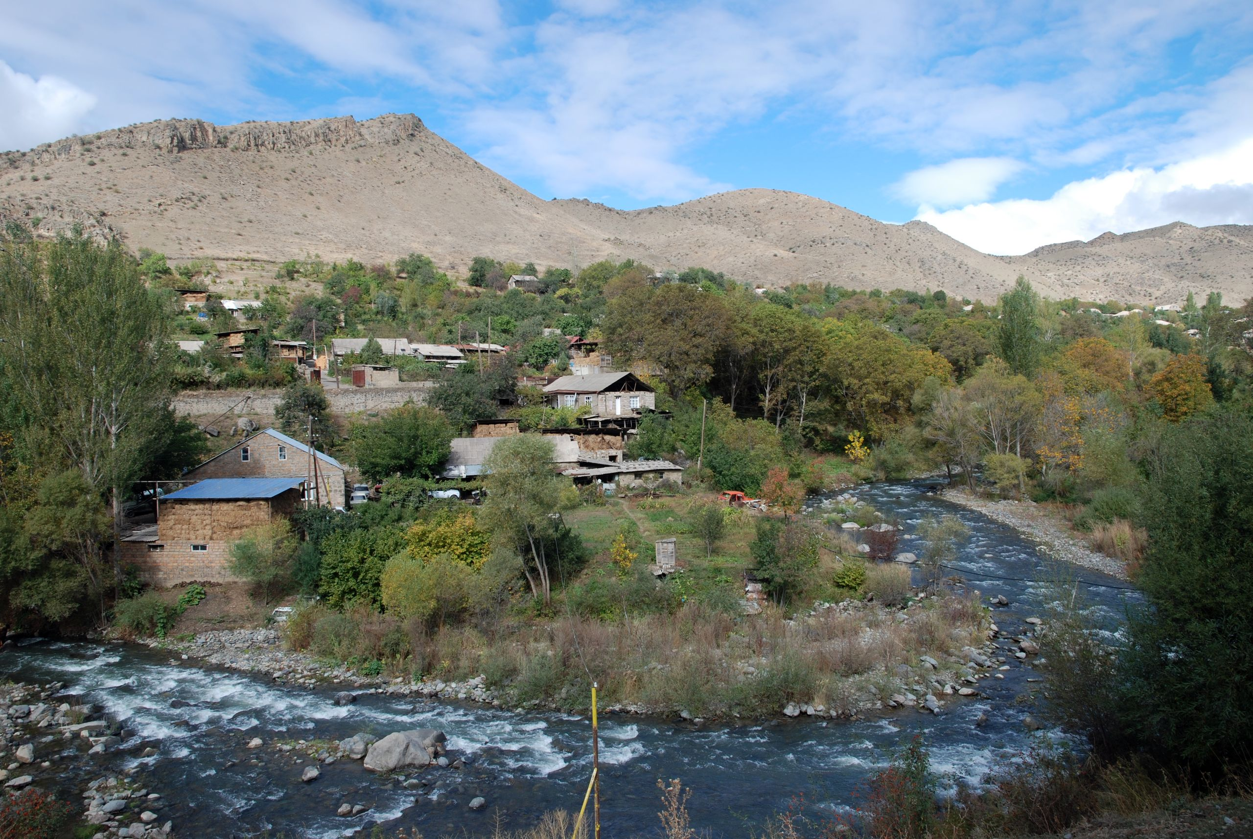 Shatin village, Vayots Dzor